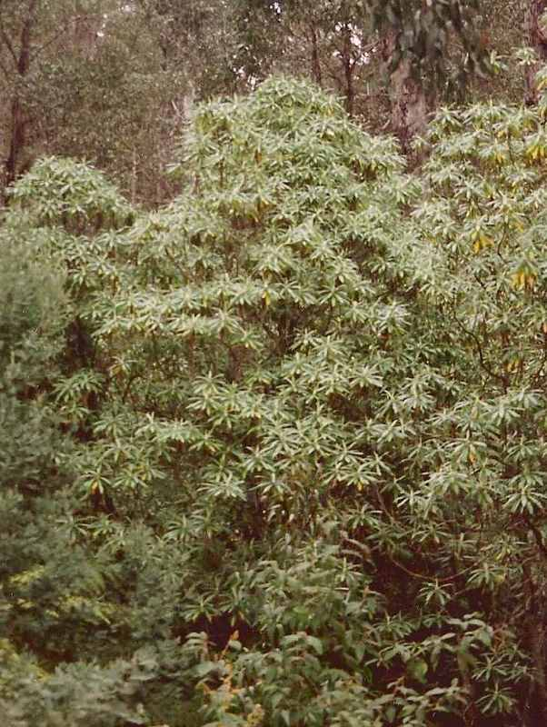 Bedfordia arborescens, Coolangubra, NSW Australia